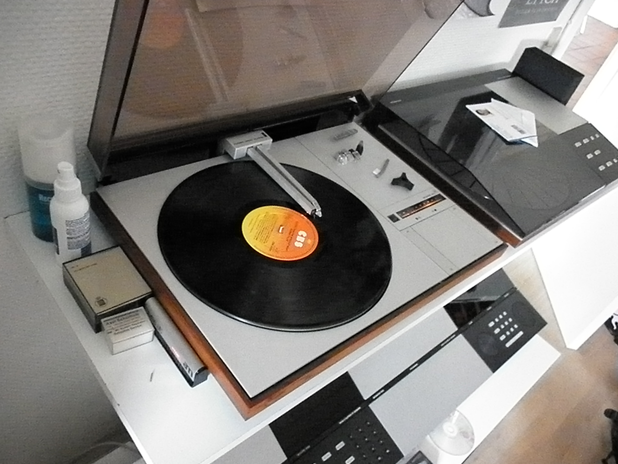 I took this picture myself, it is my own stereo